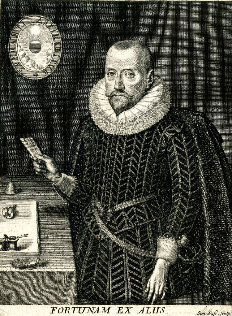 Portrait of Robert Naunton, engraving, by the British engraver Simon van de Passe. 166 mm x 124 mm. Courtesy of the British Museum, London.